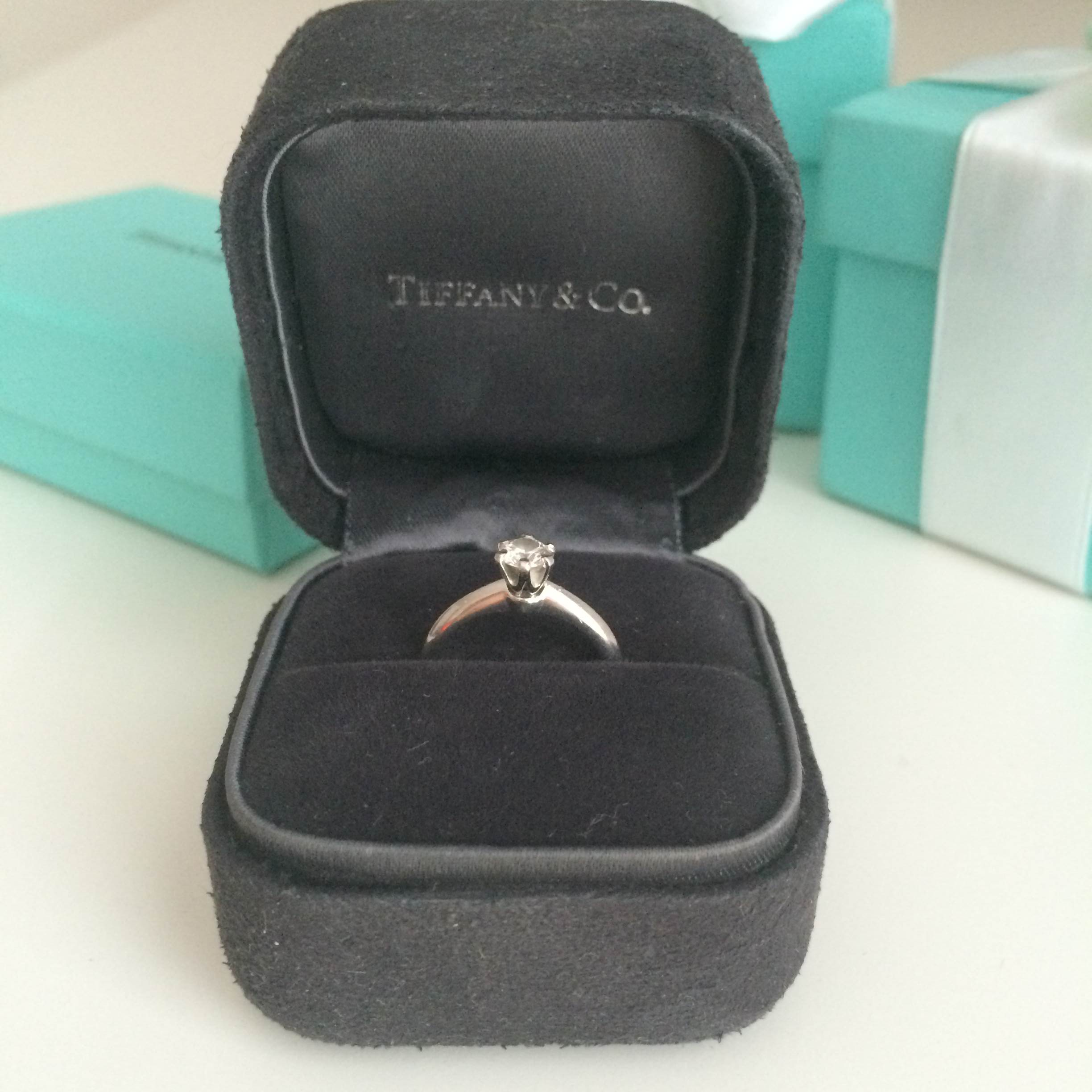 tiffany setting